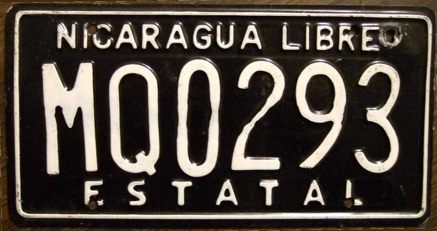 State owned vehicle from Nicaragua. The "M" in the serial number denotes the city of Managua, the "Q" tells us this was a truck plate.